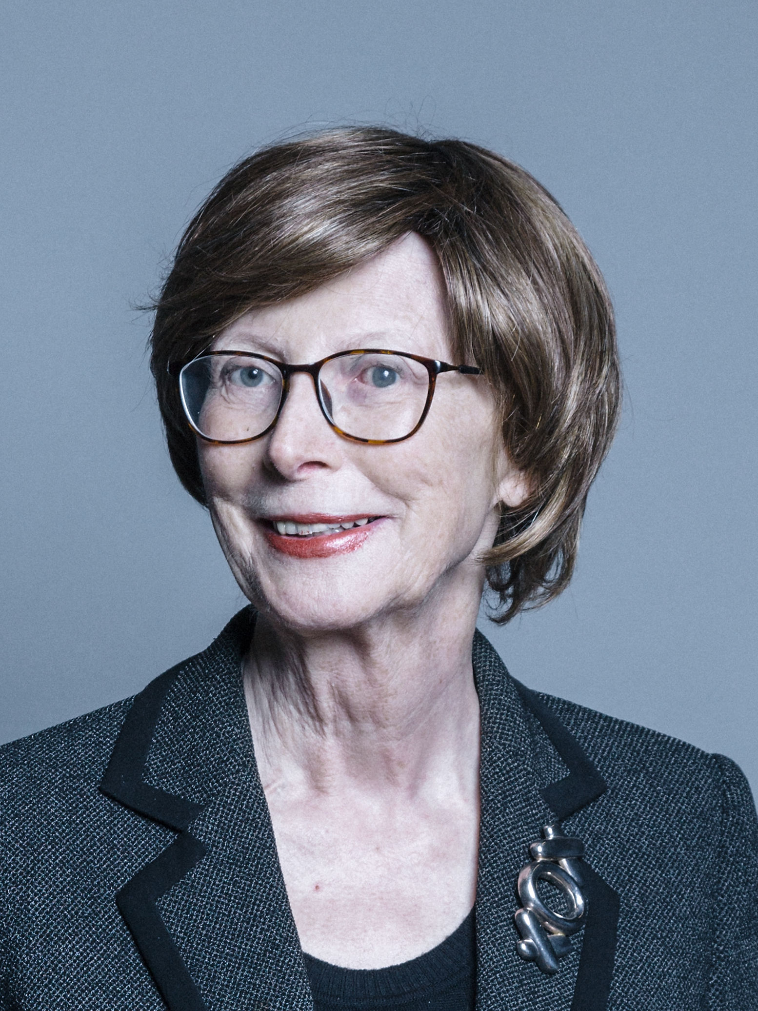 Official portrait of Baroness Hollis of Heigham